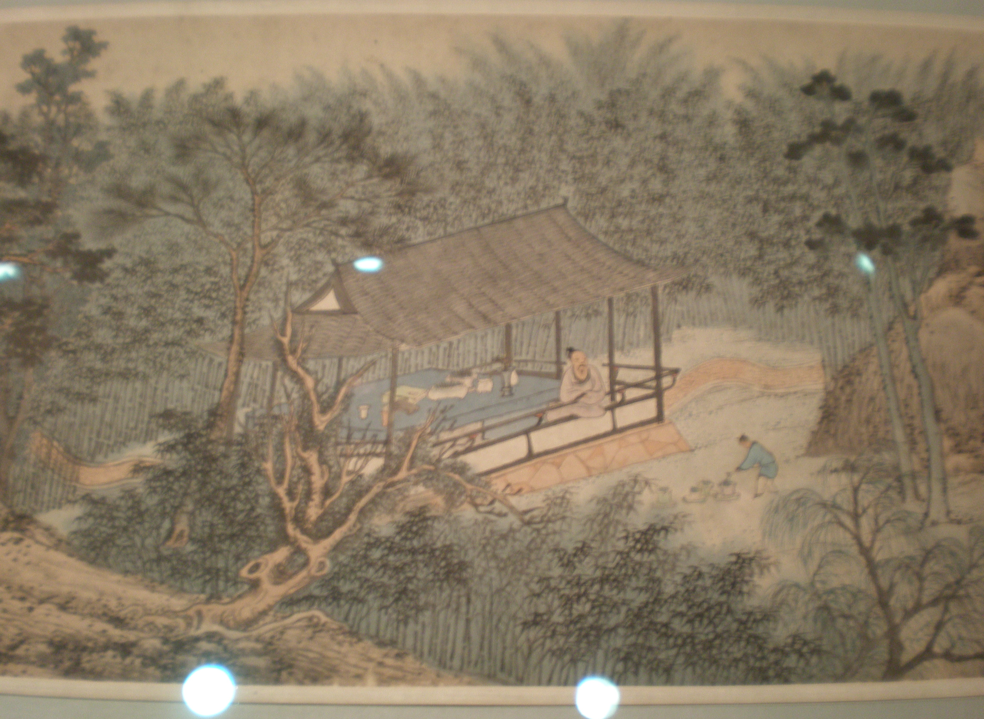 A section of "The Stone Table Garden," a painted scroll by Sun Kehong, Ming Dynasty (1820-1840). On display at the Asian Art Museum in San Francisco, California. B69D52